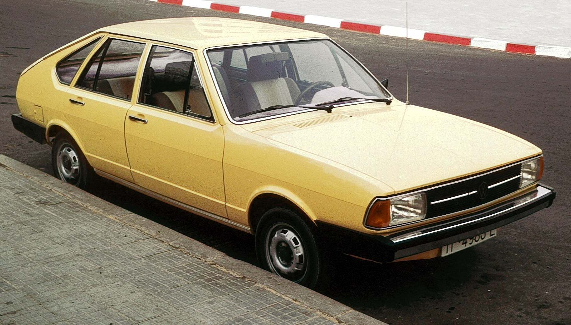 A Brazilian-built Volkswagen Passat of the first generation, spotted in Tenerife (Canary Islands). This facelifted version used the front clip from the Audi 80, which was never sold in Brazil.